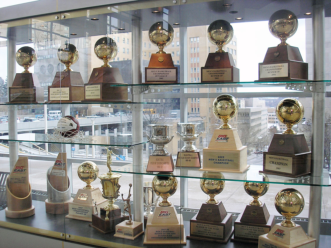 University of Pittsburgh men's basketball trophy case in the lobby of the Petersen Events Center as seen in December of 2008. photo by Michael G. White